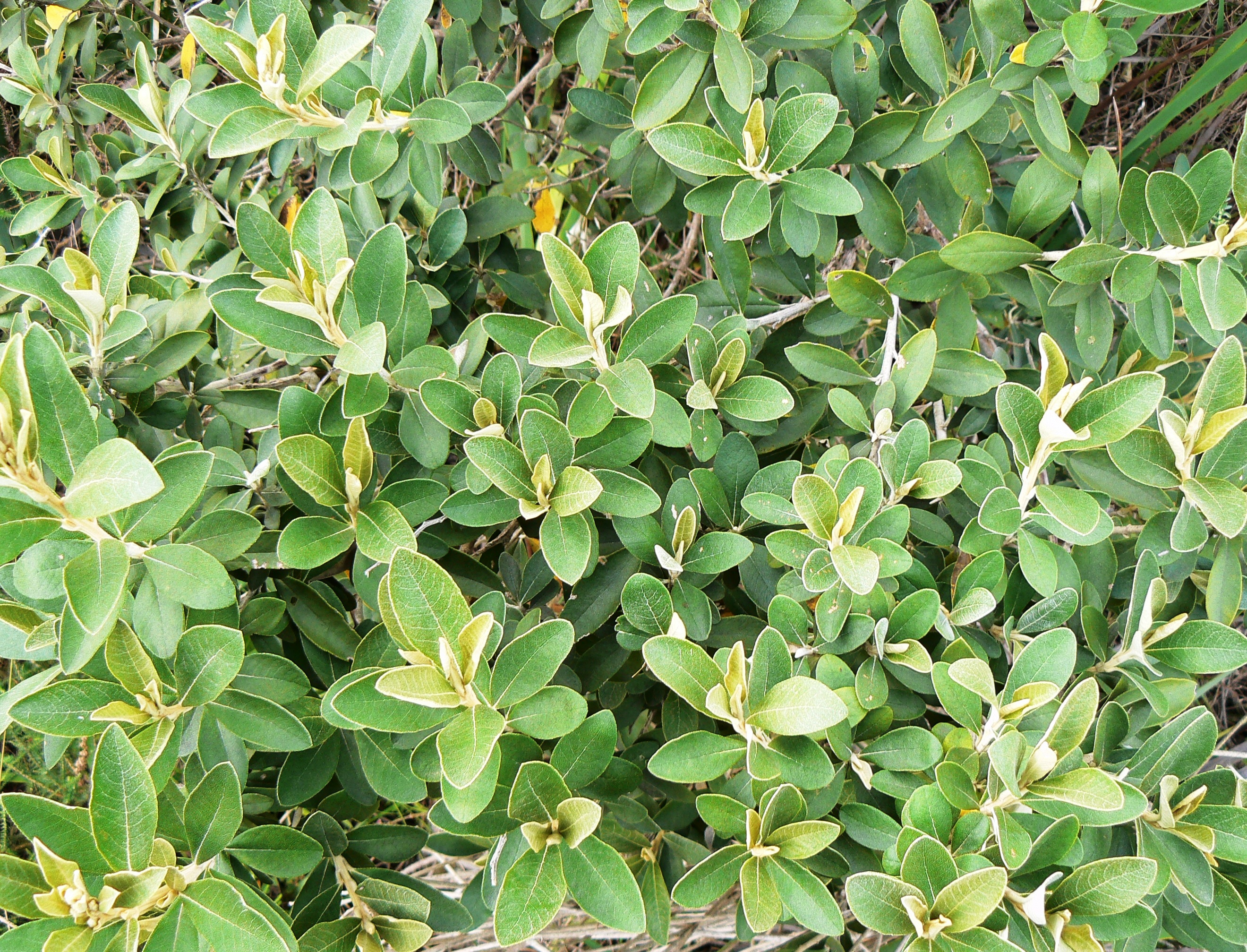 Leaf detail of Camphor Bush Tarchonanthus camphoratus - Cape Town